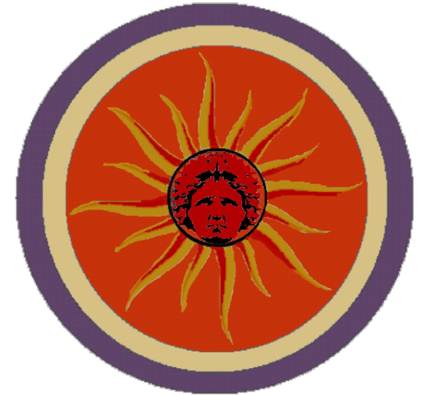 Shield pattern o.t. Brisigavi iuniores, one of the auxilia palatina units in the Magister Peditum's infantry roster; it is also assigned to his Italian command.